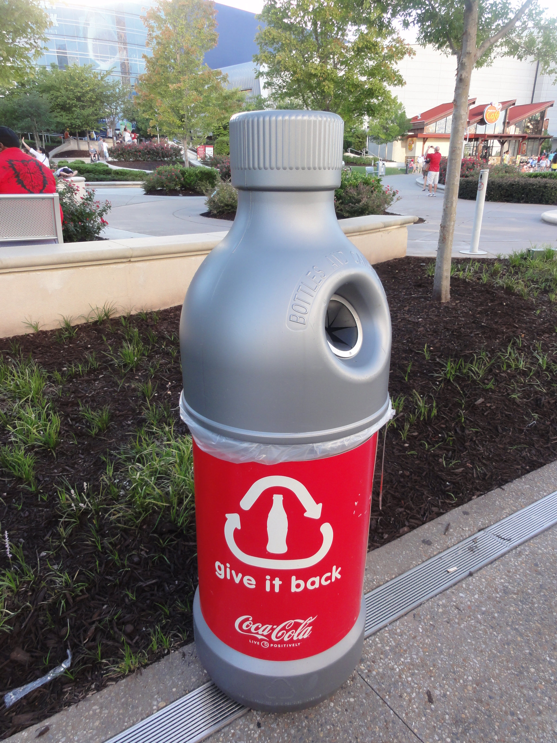 2010/09/04-05 on Atlanta Trip.